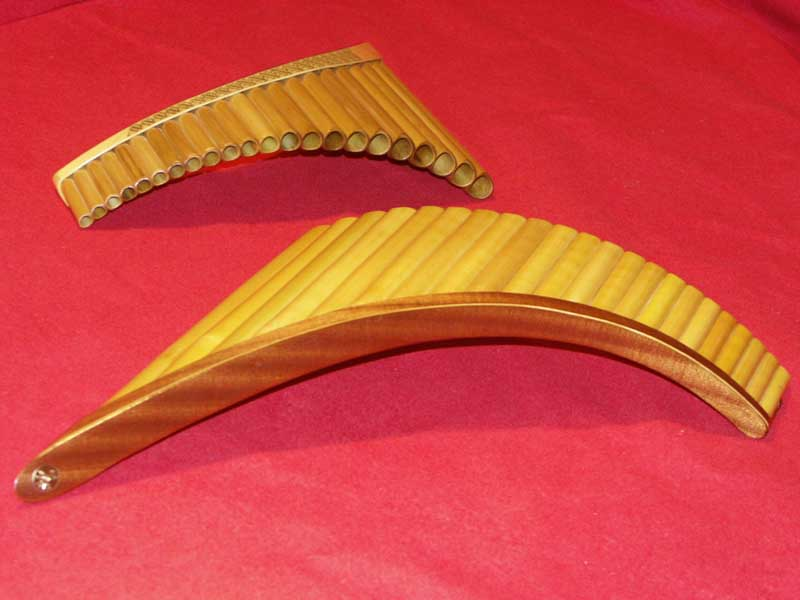 Two Romanian Panflutes; Behind: "Herkenhoff-Panfloete", Range G1-G4, also called "Soprano-Panflute"; At the front: "Ulitza"-Panfloete, Range C1-C4, also called "Alto-Panflute" or "Tenor-Panflute" (Both built by Ulrich Herkenhoff)